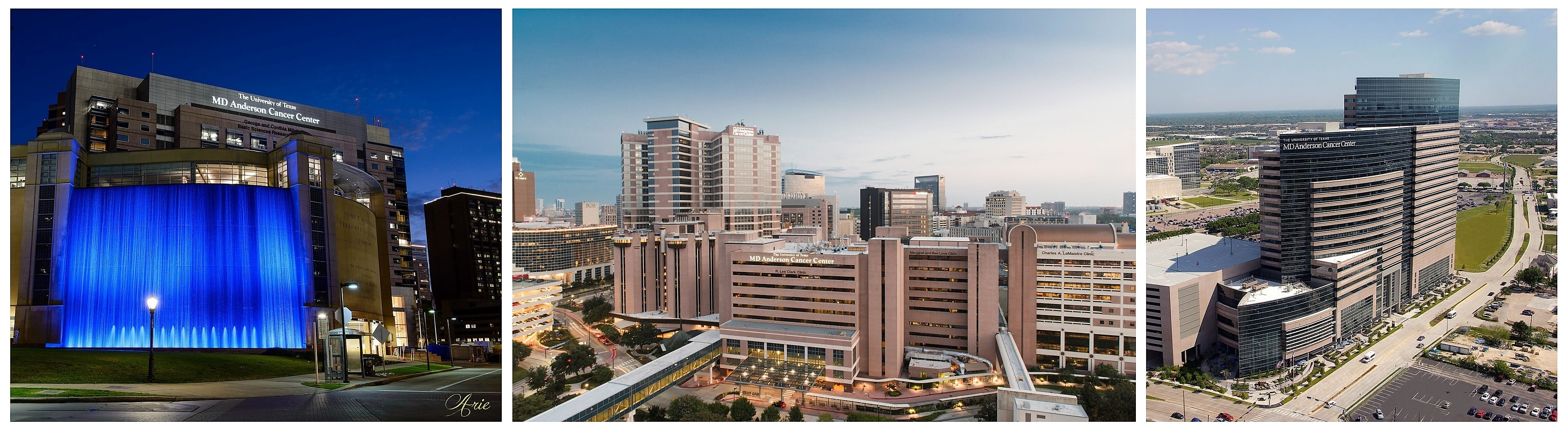 The Mitchell pavillion, Clark Clinic, and mid-campus buildings.